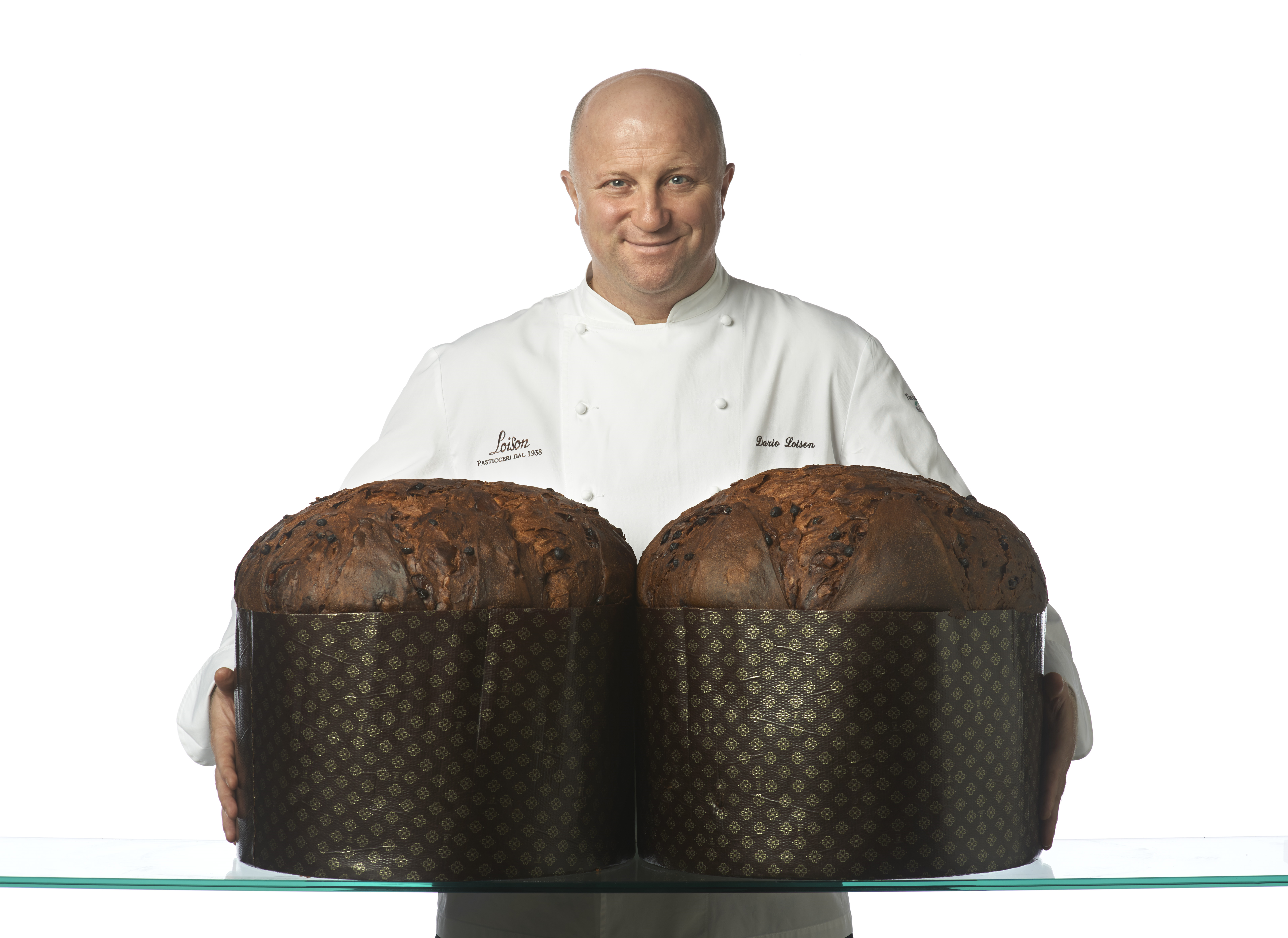 Dario Loison e le sue Creazioni